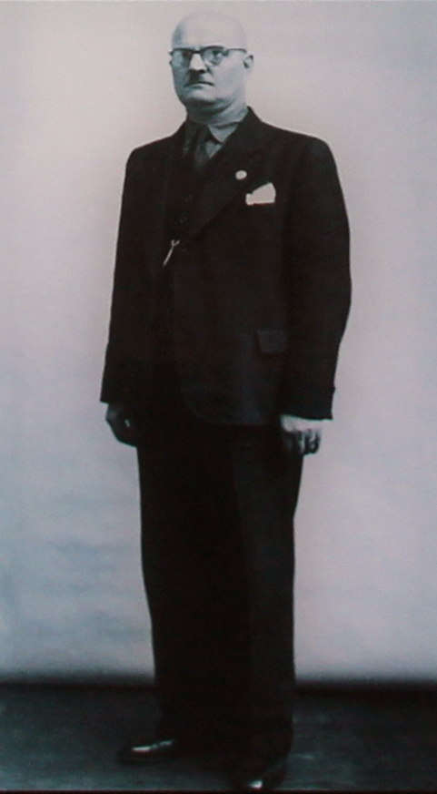 Memorial plaque, Christian Wirth, Herbert-von-Karajan-Straße 1, Berlin-Tiergarten, Germany